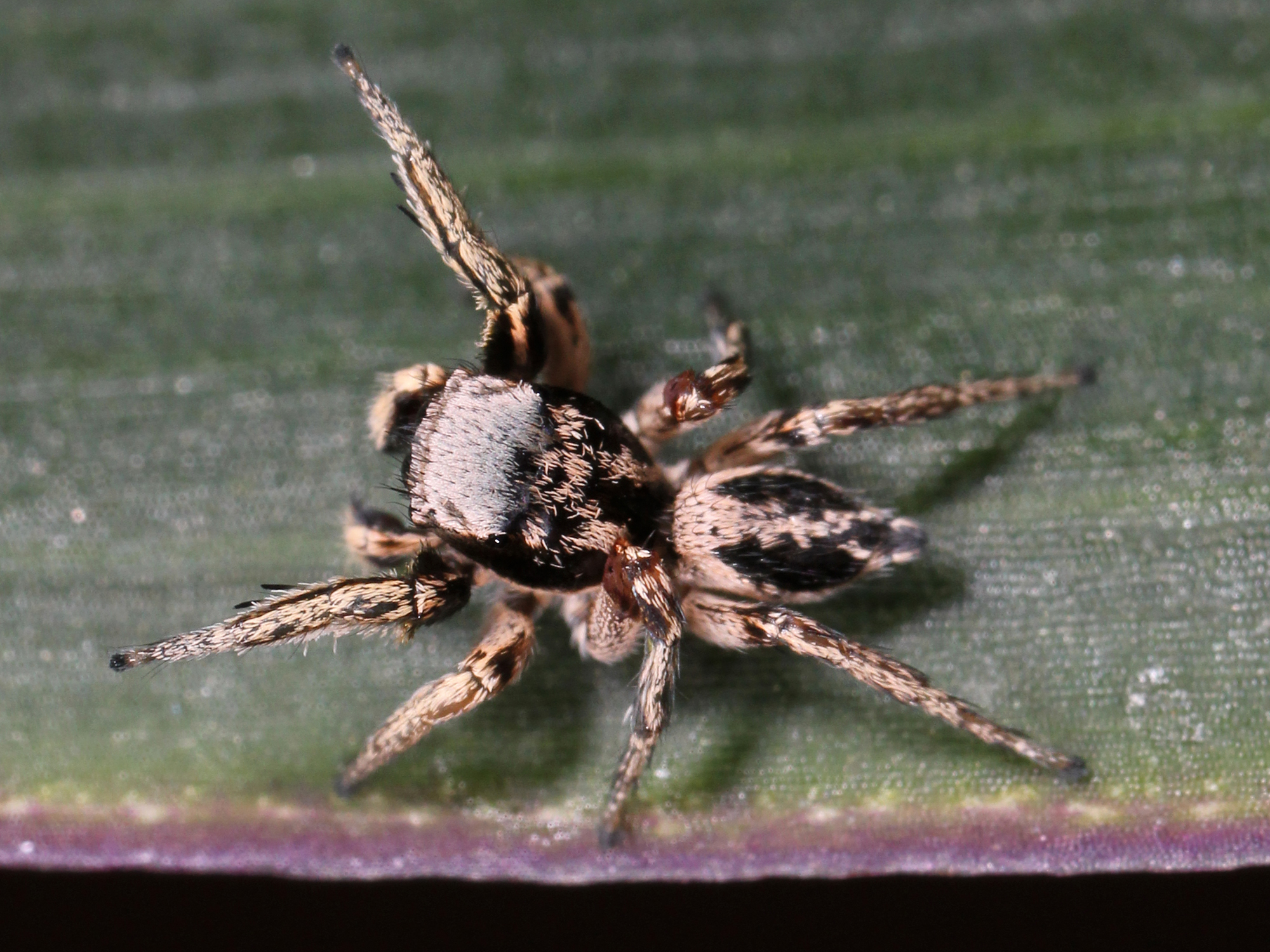 Adult male Habronattus mexicanus jumping spider Collected: February 2, 2011, 11:30am, swept from grass and brush Location: Between Southern Highway and Riversdale, Stann Creek District, Belize Habitat: Pine and palm savannah